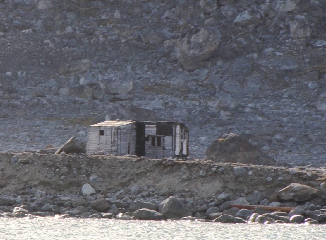 The Norwegian trapper's hut at sabineodden, formerly known as the "Svenskgattet Hut", but situated in the sound between Albert I Land and Danskøya island. Northwest Spitsbergen.